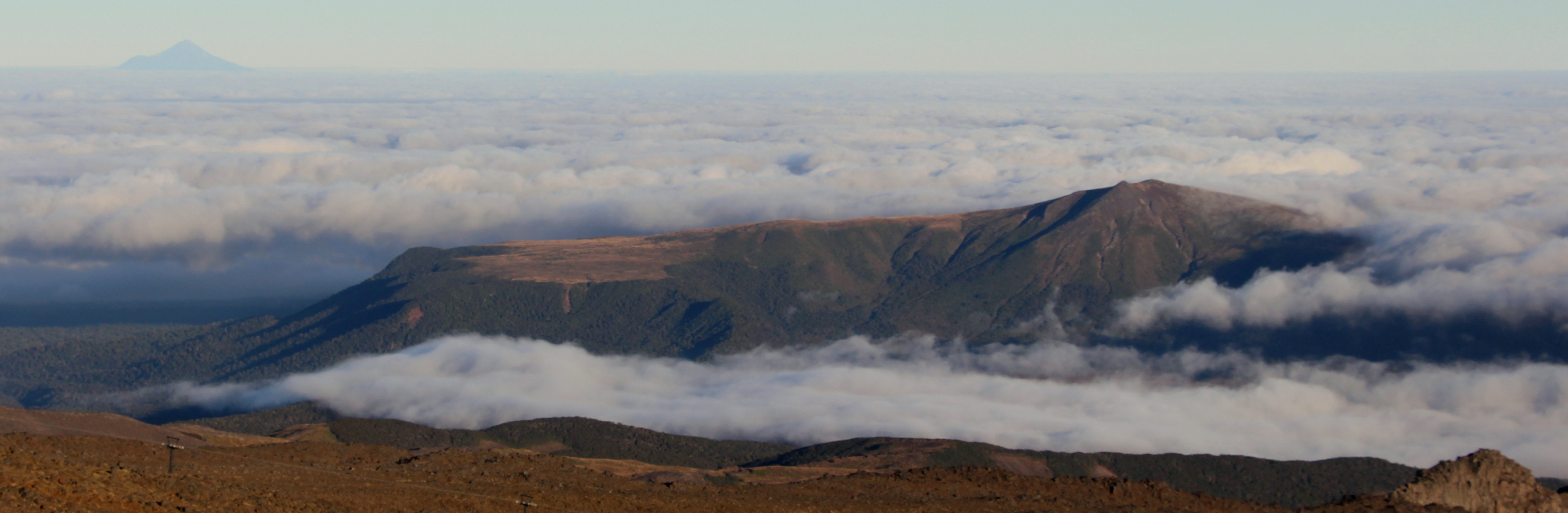 Volcano Hauhungatahi, New Zealand